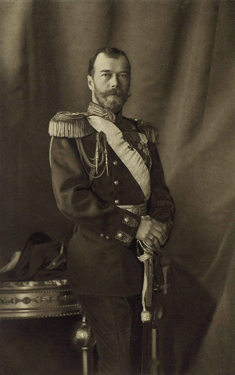 Nikolay II